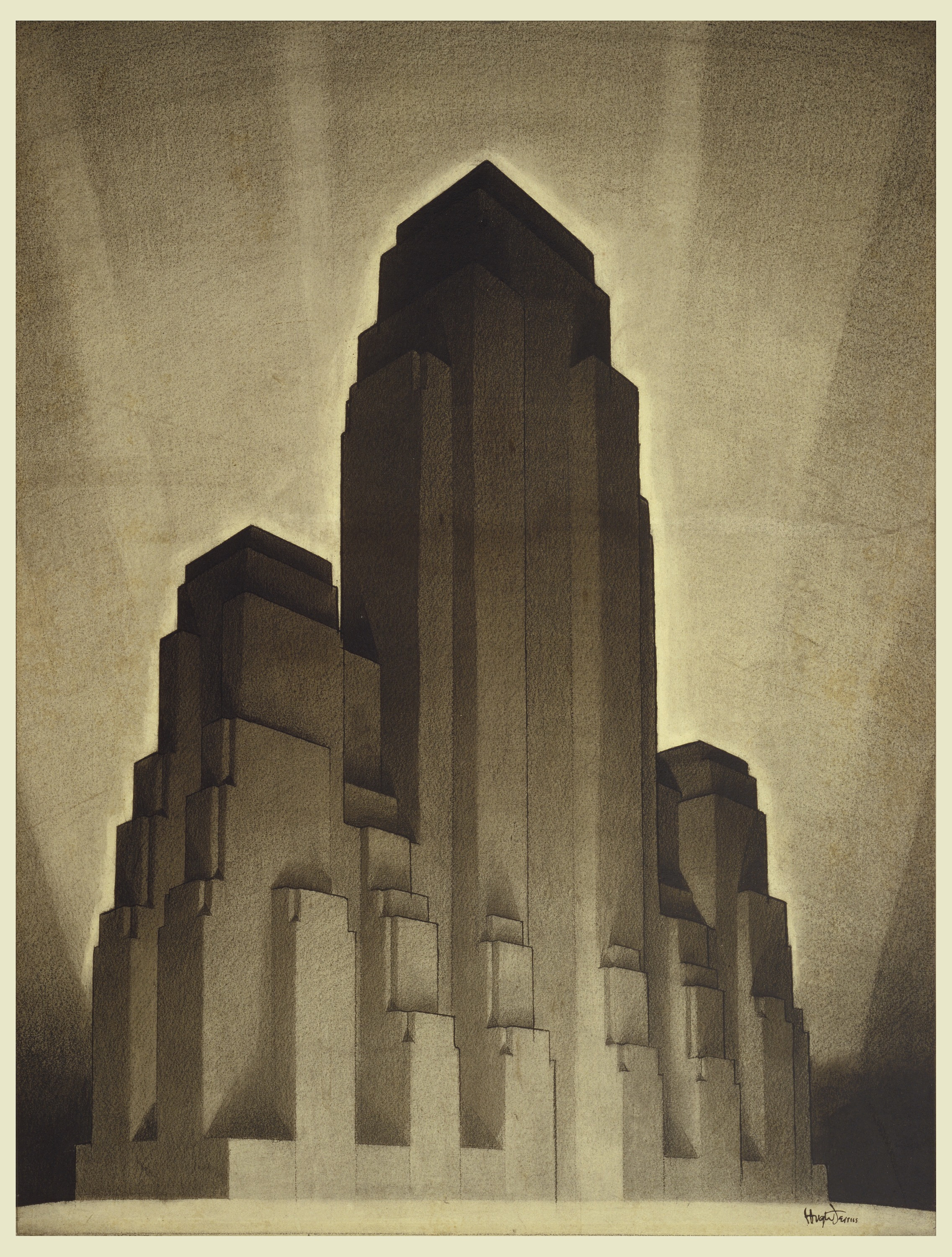 Rendering of very dark, monumental high-rise building consisting of tall set back central tower, flanked by two smaller towers, each with set back upper stories. Dramatic "fan" of light rays in background. This is an early proposal for the set back skyscraper form that was to characterize many skyscrapers built from the mid-1920s to the ca. 1950s.